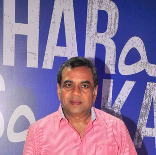 Paresh Rawal at the Trailer launch of Dharam Sankat Mein.